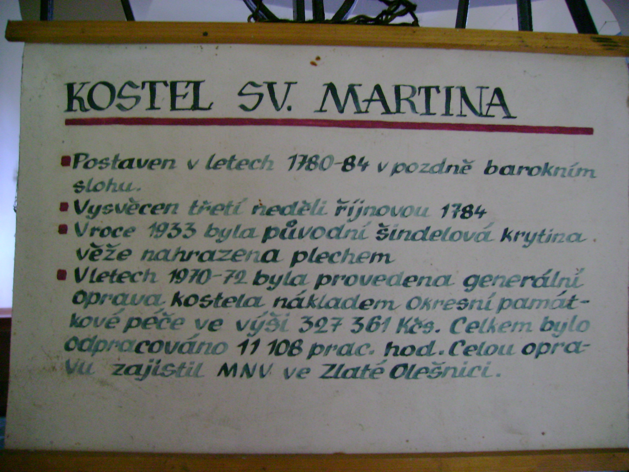 Church of Saint Martin in Zlatá Olešnice in Jablonec nad Nisou District in the Liberec Region of the Czech Republic – inscription.